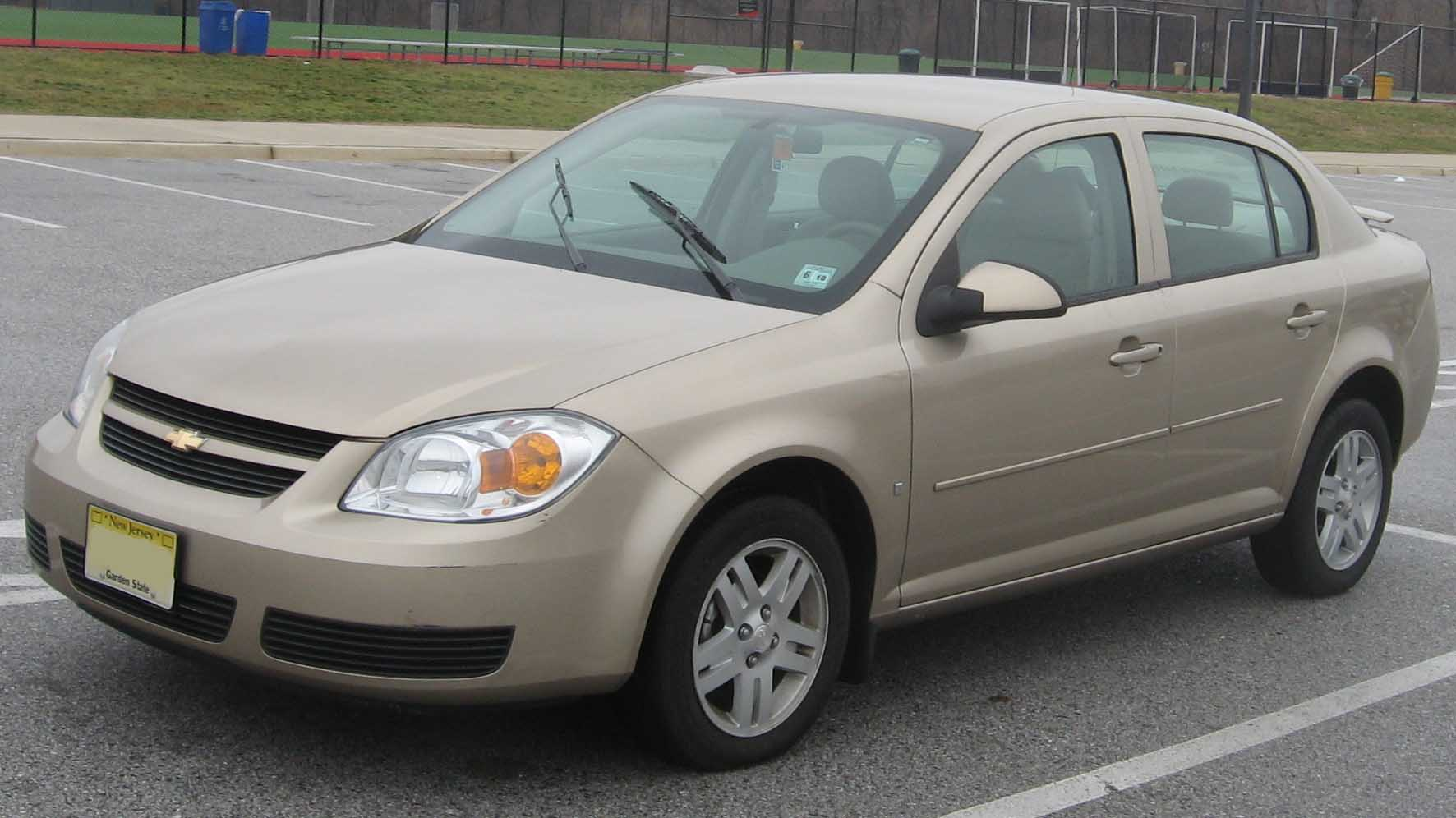 2005-2008 Chevrolet Cobalt photographed in College Park, Maryland, USA.